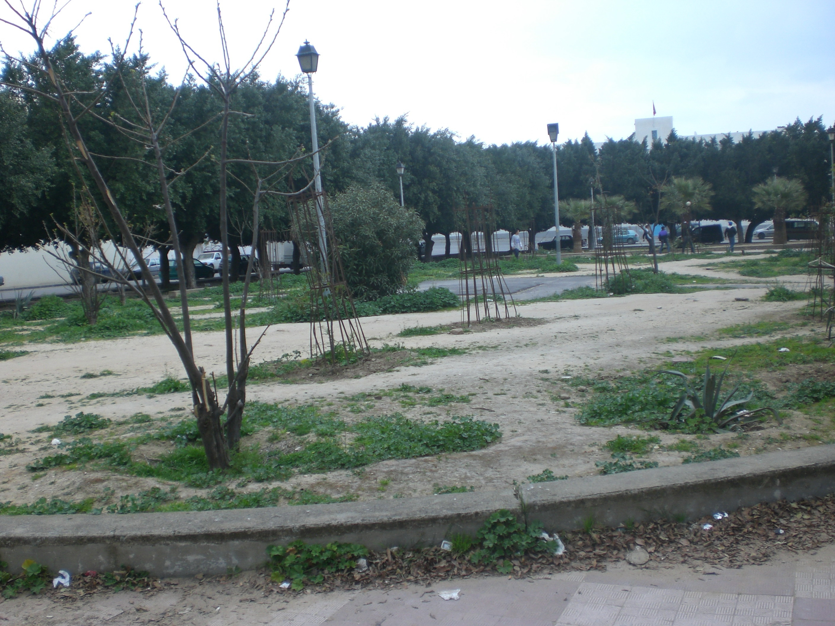 The square of Leader-Tunis